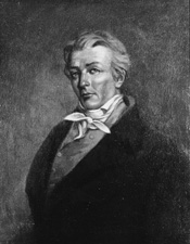 United States Senator from Mississippi